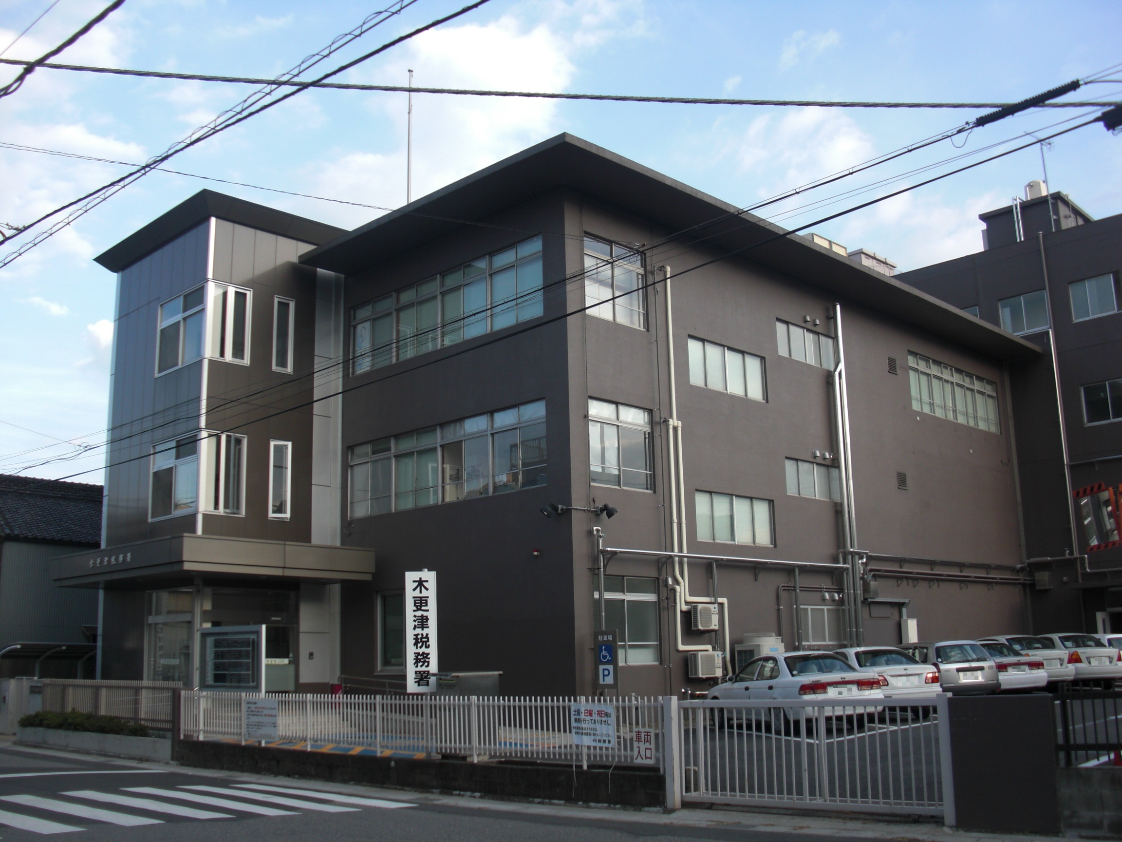 This is a tax office in Chiba, Japan.